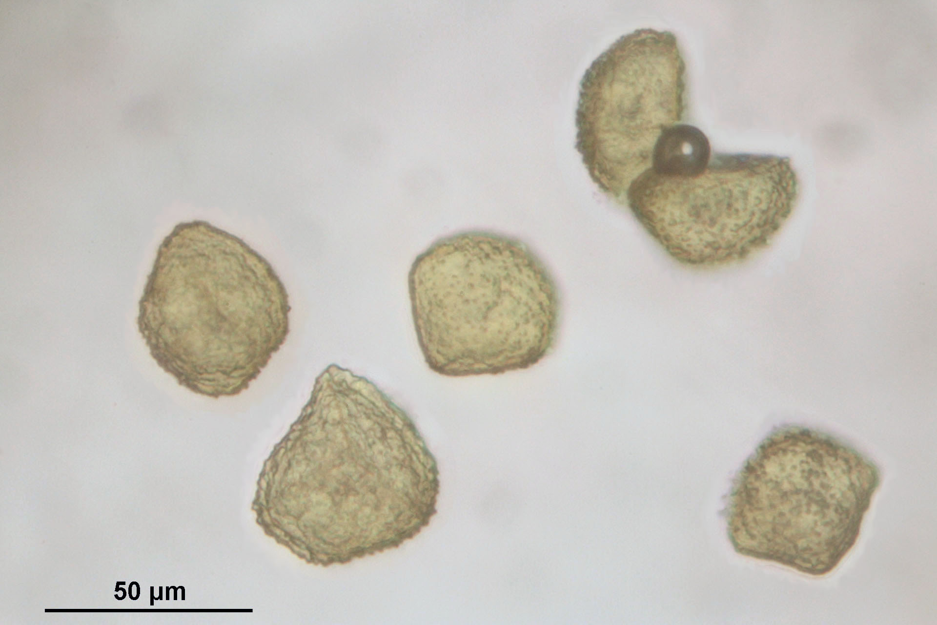 Phaeoceros carolinianus